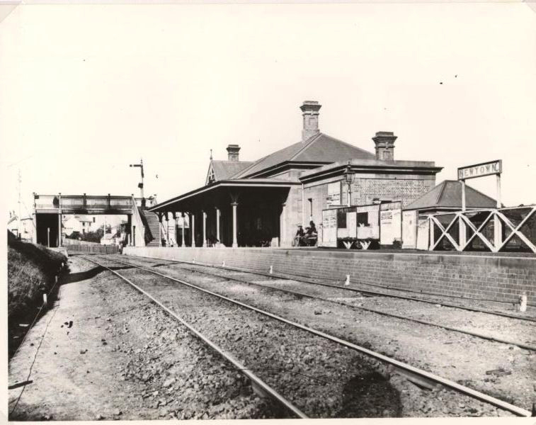 Newtown railway station 1st site.